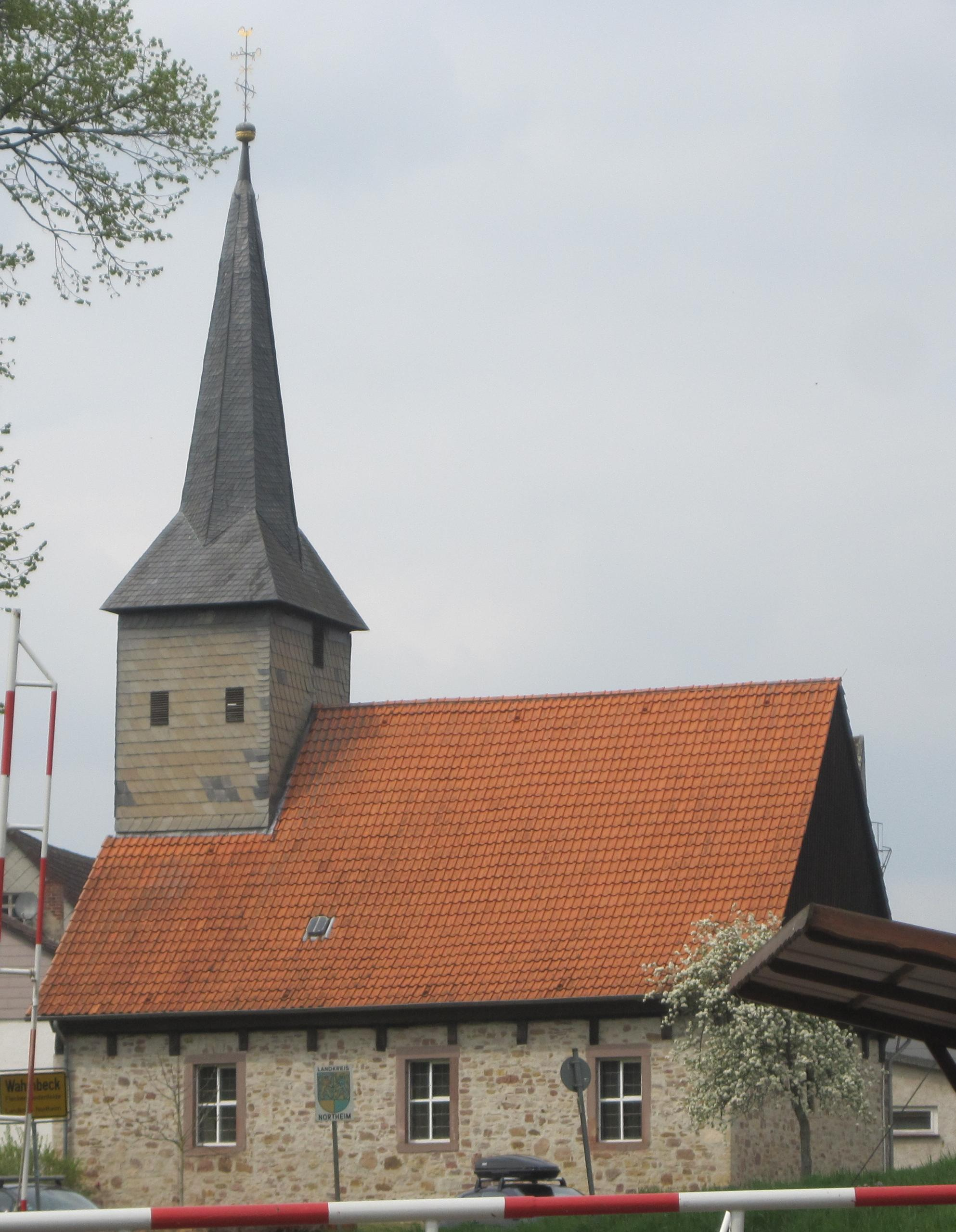 St. Christopherus church, Bodenfelde, Germany check usage